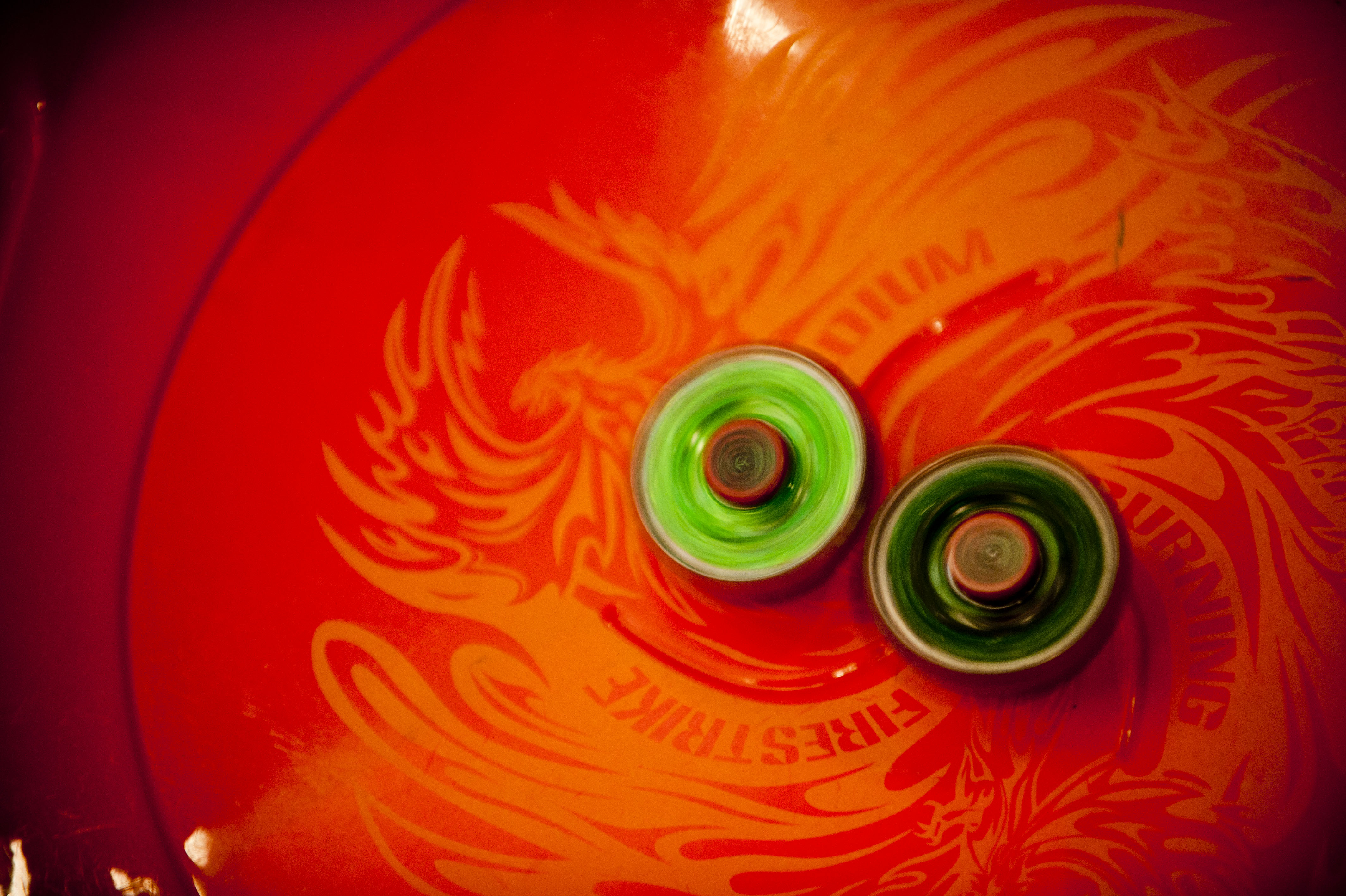 Beyblades collide during the Beyblades Battle Tournament April 18, 2012, at Incirlik Air Base, Turkey. A Beyblade is a spinning top that is launched into an arena with another Beyblade, and the last top spinning wins. There were 30 competitors who fought to win three out of five matches to advance to the next round.